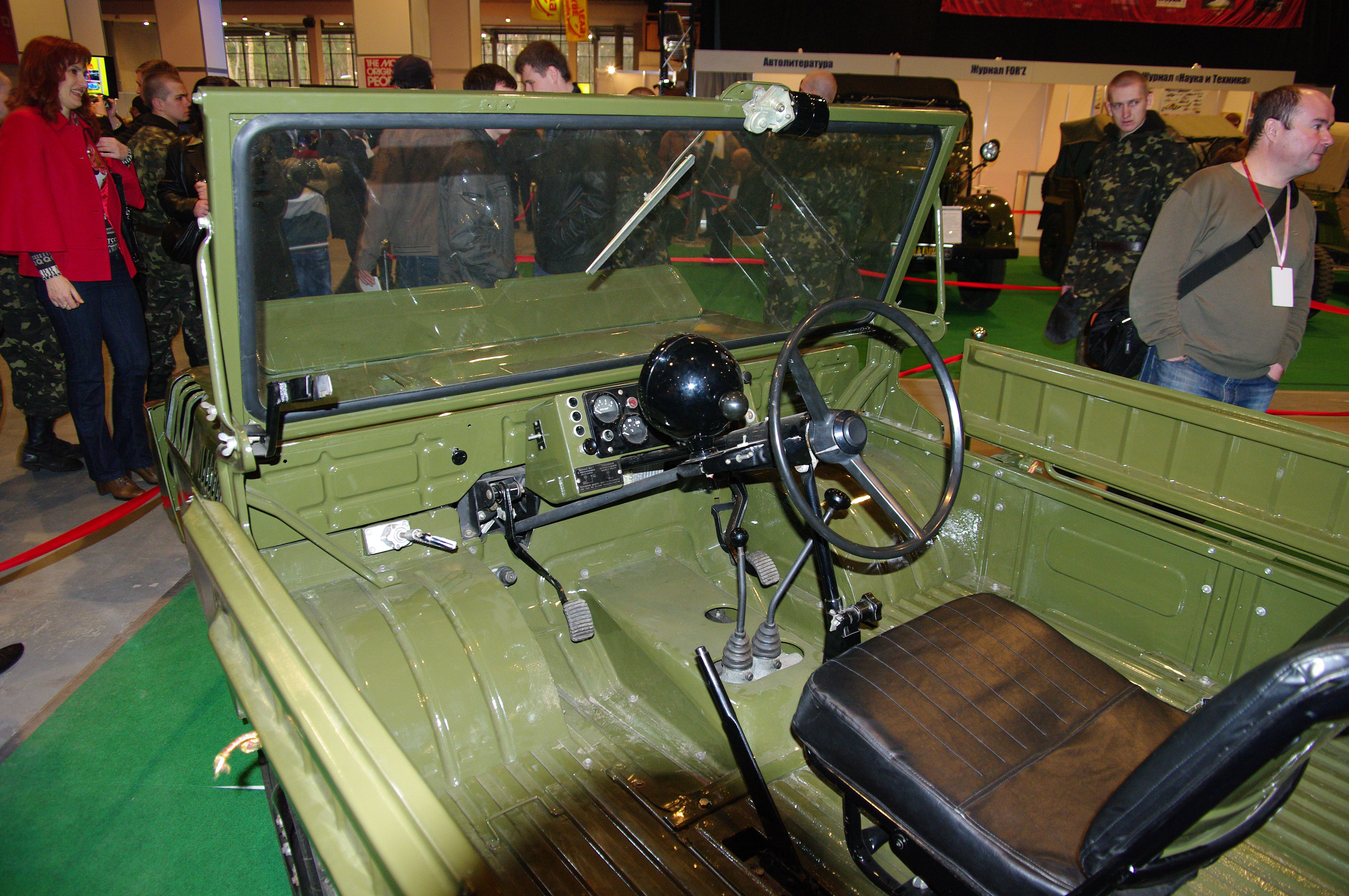 Kyiv Retro&Exotica 2013 exhibition